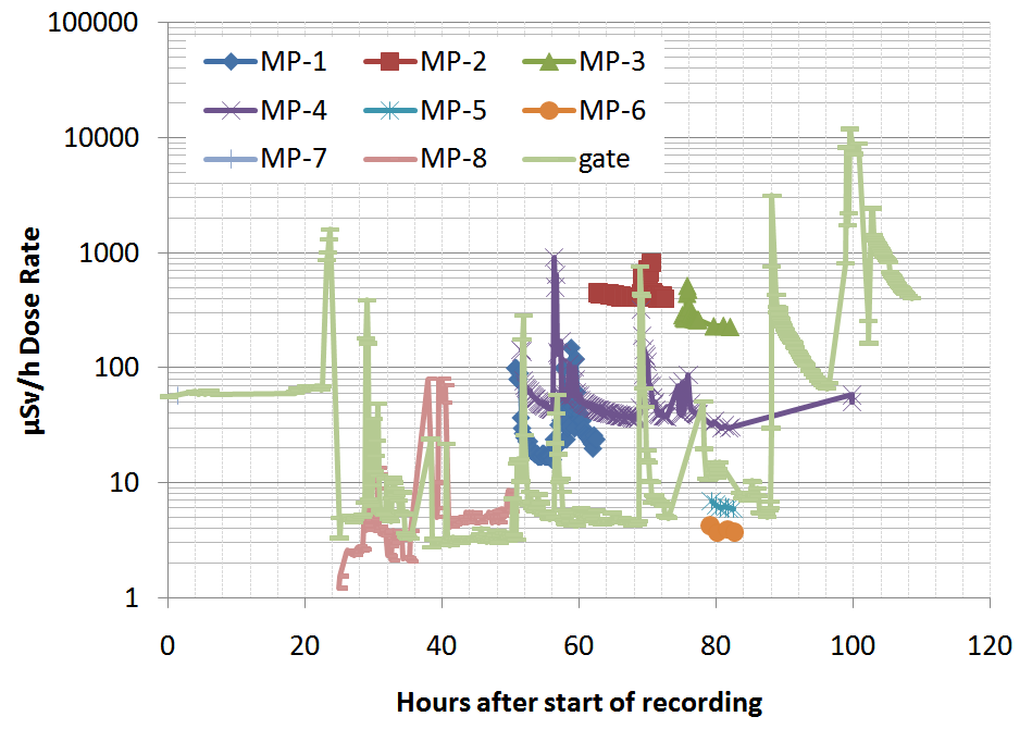 Radiation monitoring readings from the site of the Fukushima I nuclear power plant. Start time: March 11, 17:30 It begins at this time and continues to the last update included. This start time is roughly 3 hours after the strike of the earthquake, before which normal monitoring was underway. The data source is obtained by the following link chain: The data comes from this PDF file. The data is has a inconsistent and jumps from detector to detector as shown in the graph. No explanation accompanies it. No conversions to dose were done, the report provides everything in micro Sv/h, which are the units given on the graph.